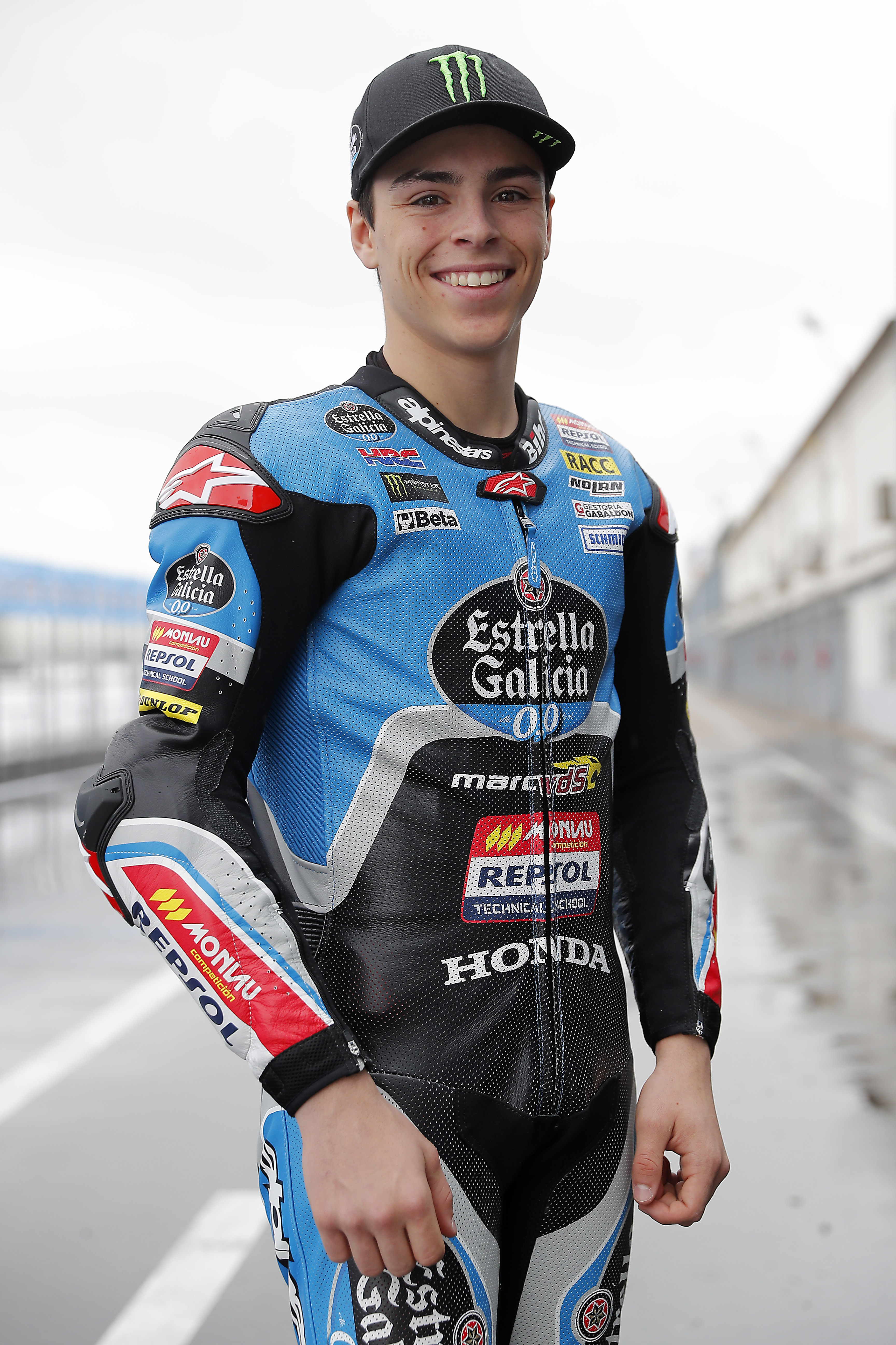 Alonso López at presentation of Moto3 team in 2018